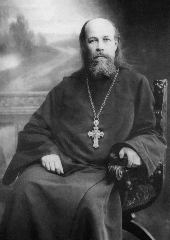 archpriest Filosof Ornatsky (1860-1918)